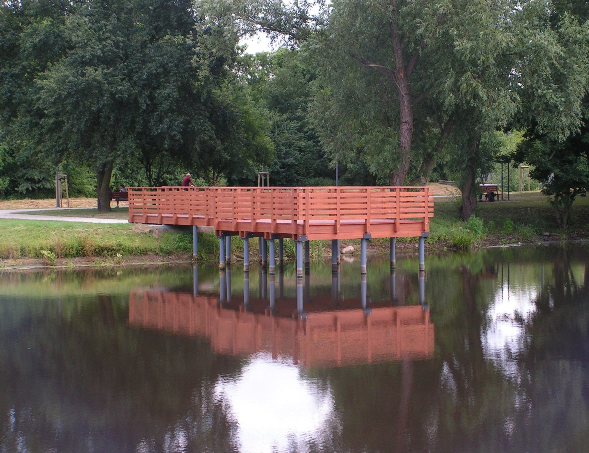 Bridge on reservoir (it is a Zgłowiączka's oxbow) in Park in Słodowo in Włocławek.